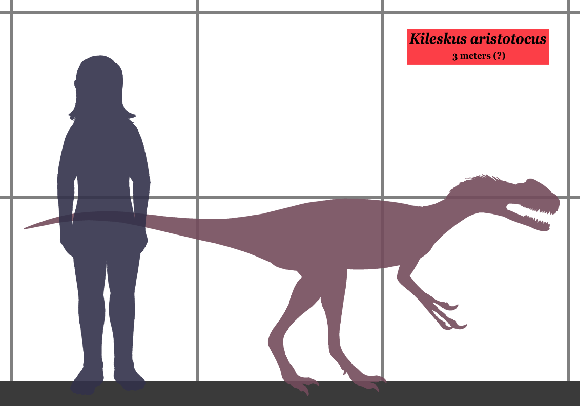 Estimated size of the dinosaur Kileskus aristotocus (Dinosauria, Saurischia, Theropoda, Tetanurae, Coelurosauria, Tyrannosauroidea) and a human. Since the known fossils of Kileskus are very fragmentary, the exact size is very difficult to calculate.